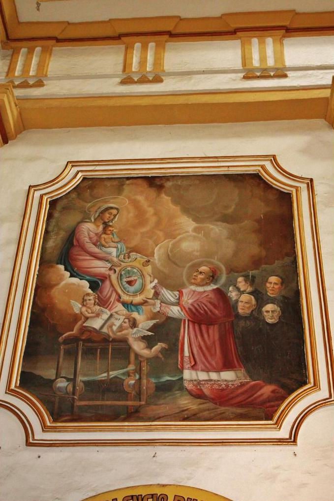 Our Lord of Calvary Church, Orizaba, Veracruz state, Mexico